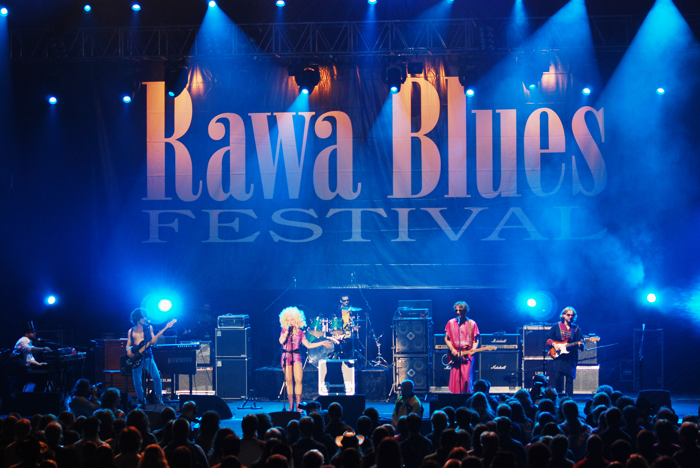 Big Fat Mama during 27. edycji Rawy Blues Festival